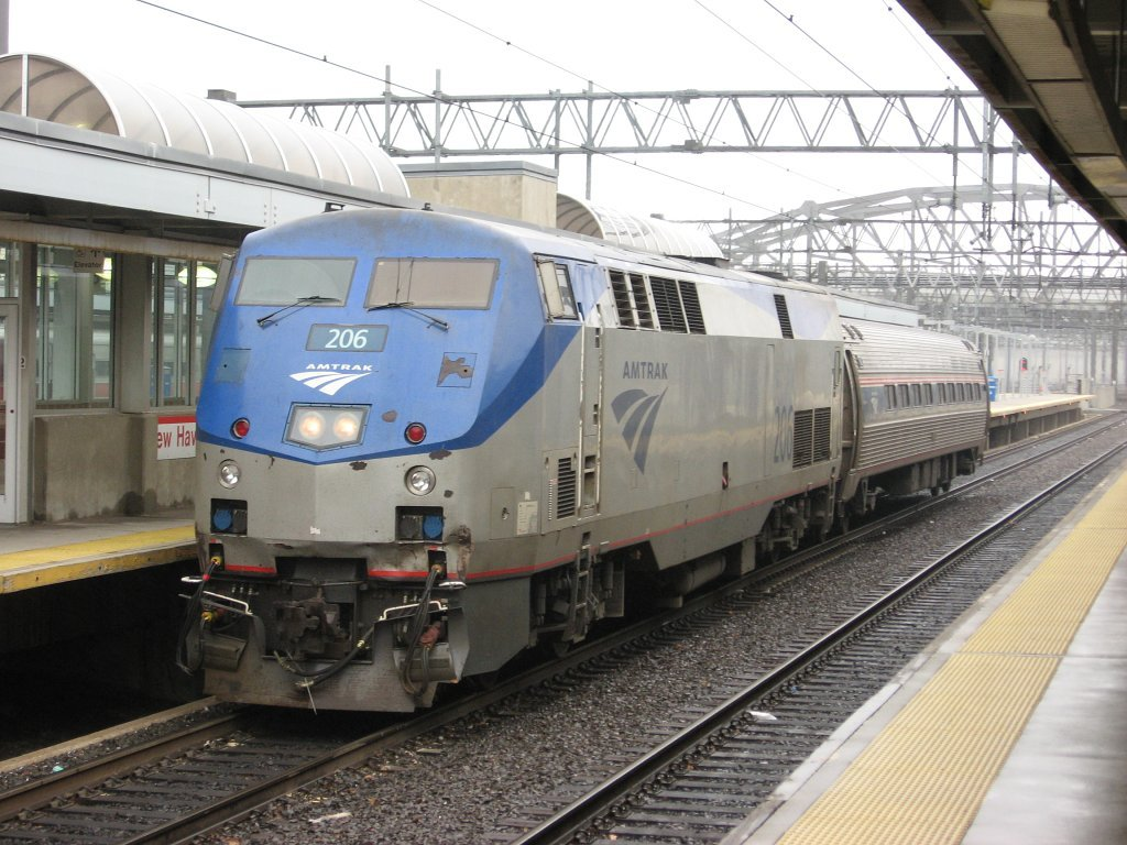 A New Haven Springfield shuttle train, or rather, a car, is awaiting departure from New Haven Union Station on Train 470.